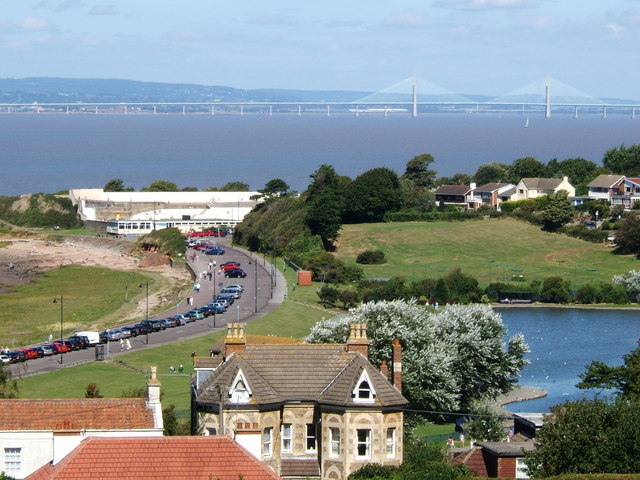 Severn Bridges from Nore Rd. Portishead.